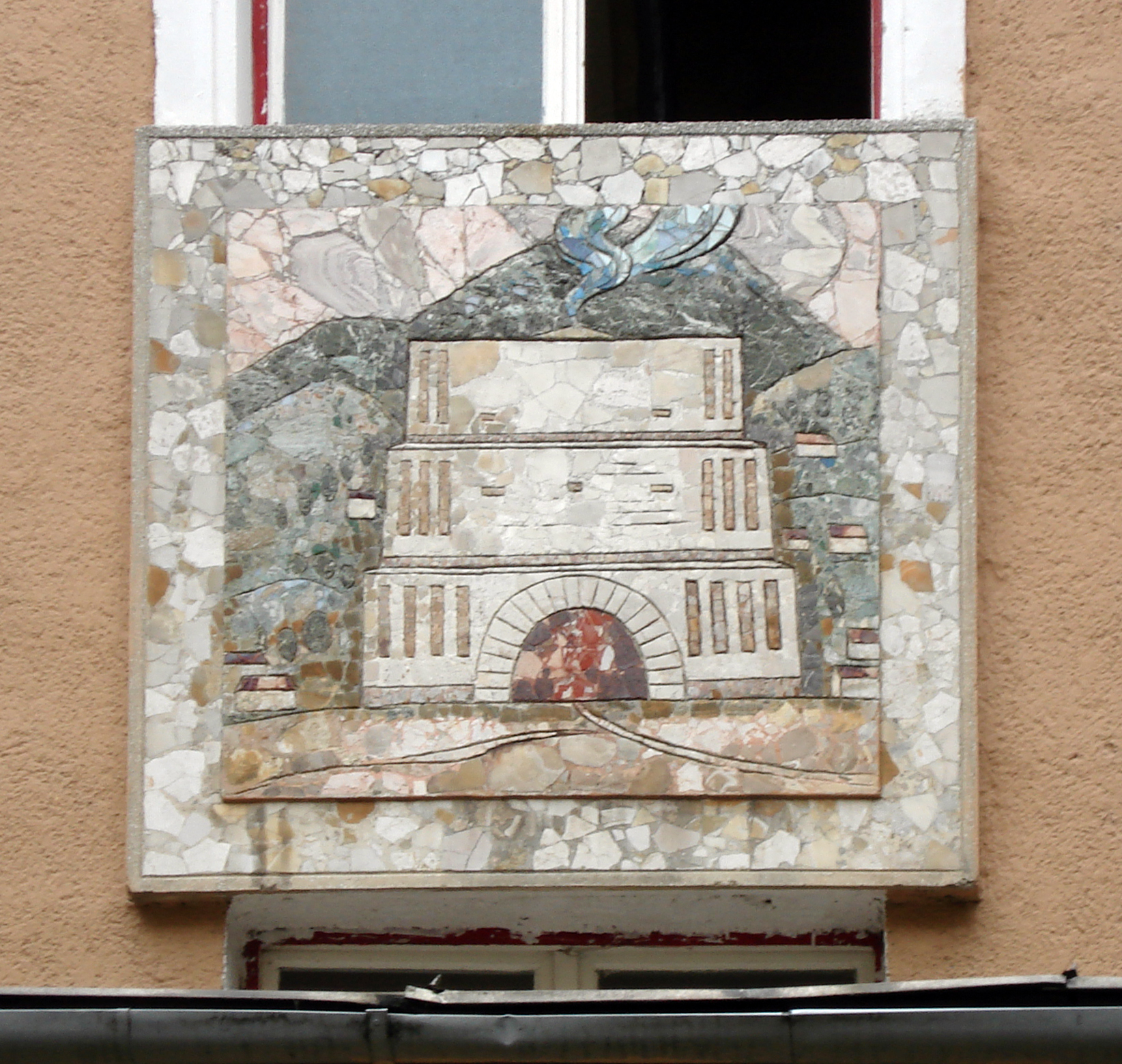 Eszter Mattioni: Ancient Blast Furnace. Mosaic. Street Szinyei Merse Pál, Miskolc, Diósgyőr, Hungary